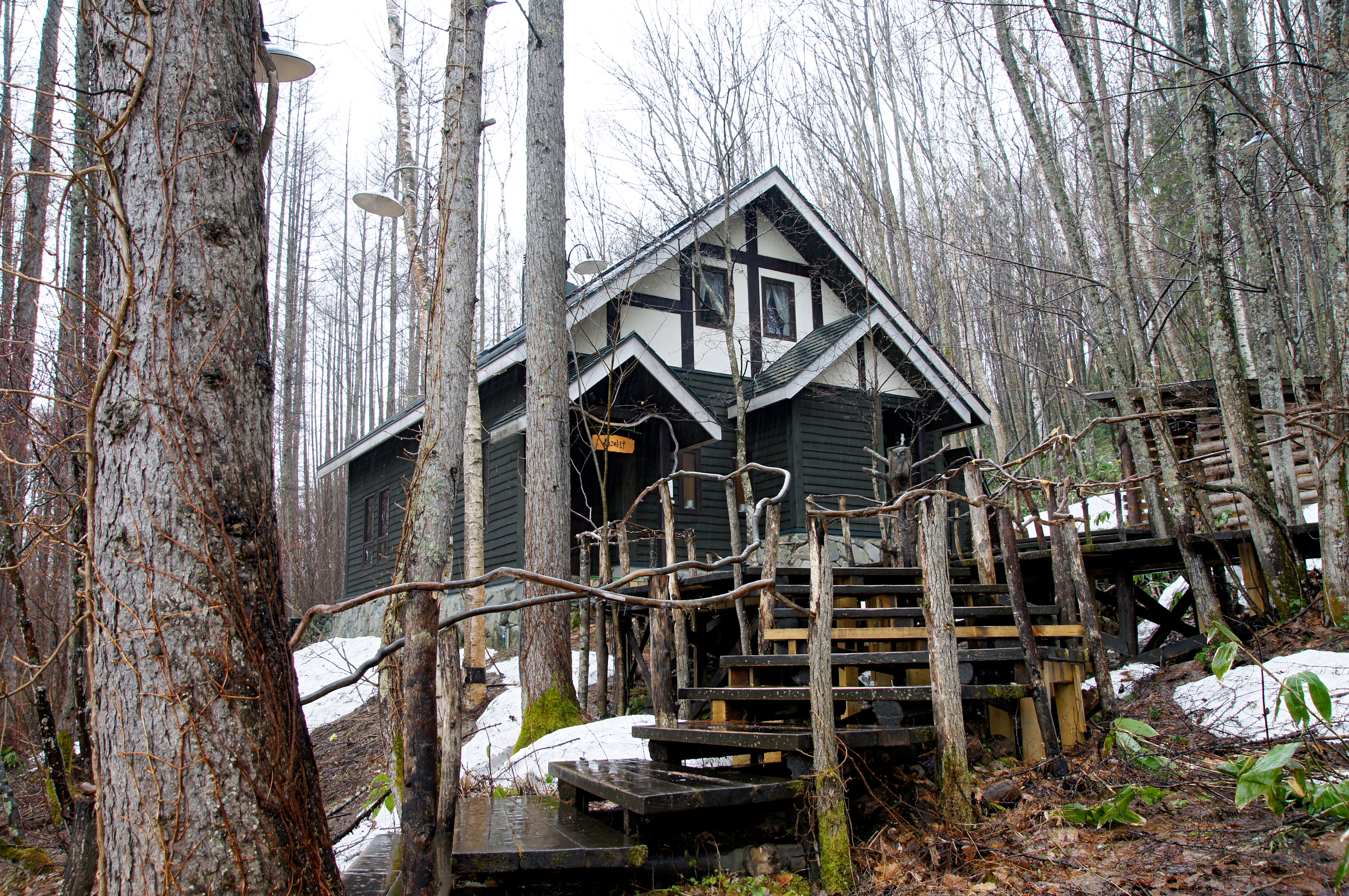 Café Mori-no-tokei in Furano, Hokkaido prefecture, Japan.